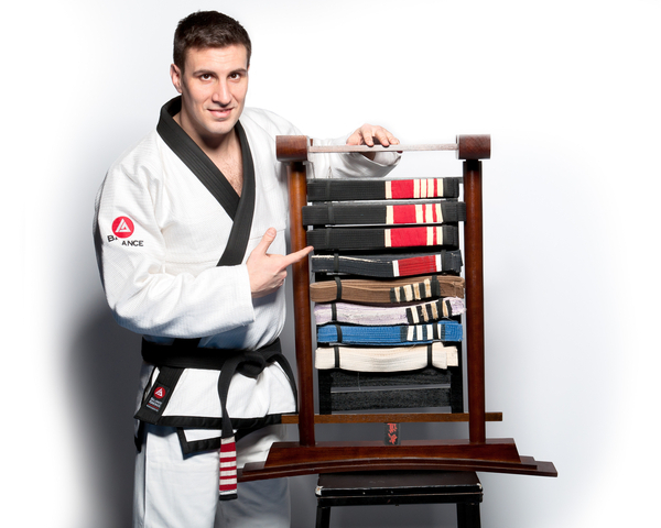 4th degree BJJ Black Belt Phil Migliarese with the belts he earned over his 20 years of training.